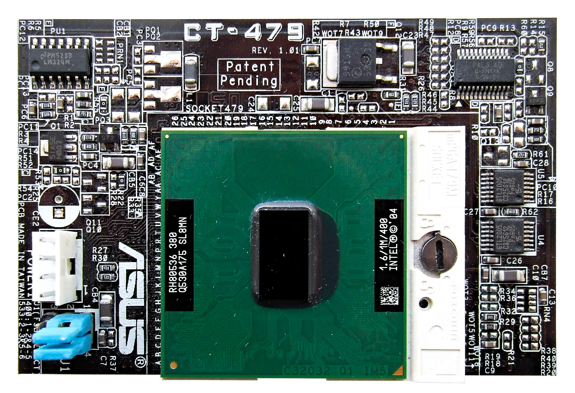 The ASUS CT-479 adapter allows for the installation of first-generation Pentium M as well as Celeron M mobile CPUs (Banias and Dothan) on socket 478 motherboards. It was designed for a number of ASUS products, but can be made to work on a handful of officially unsupported boards via BIOS and/or hardware mods. The installed CPU is a Celeron M 380, sSpec number SL8MN. Technical specifications: Socket: 479 Core: Single core Stepping: C0 (Dothan-1024 90 nm) Clock speed: 1600 Mhz Cache: 64 KB L1 + 1 MB L2 FSB: 400 Mhz QP TDP: 21 W